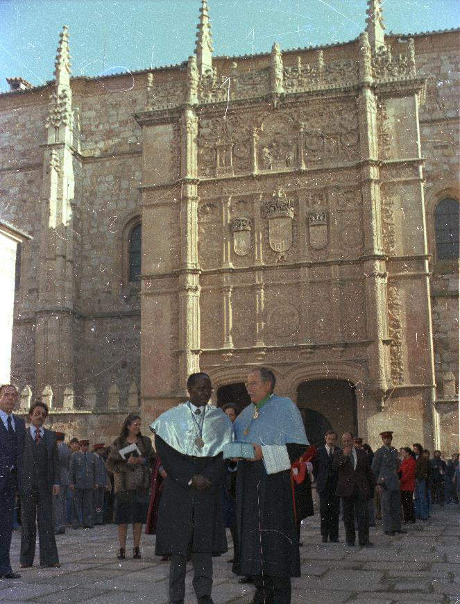 Léopold Sédar Senghor receiving a degree honoris causa from the University of Salamanca